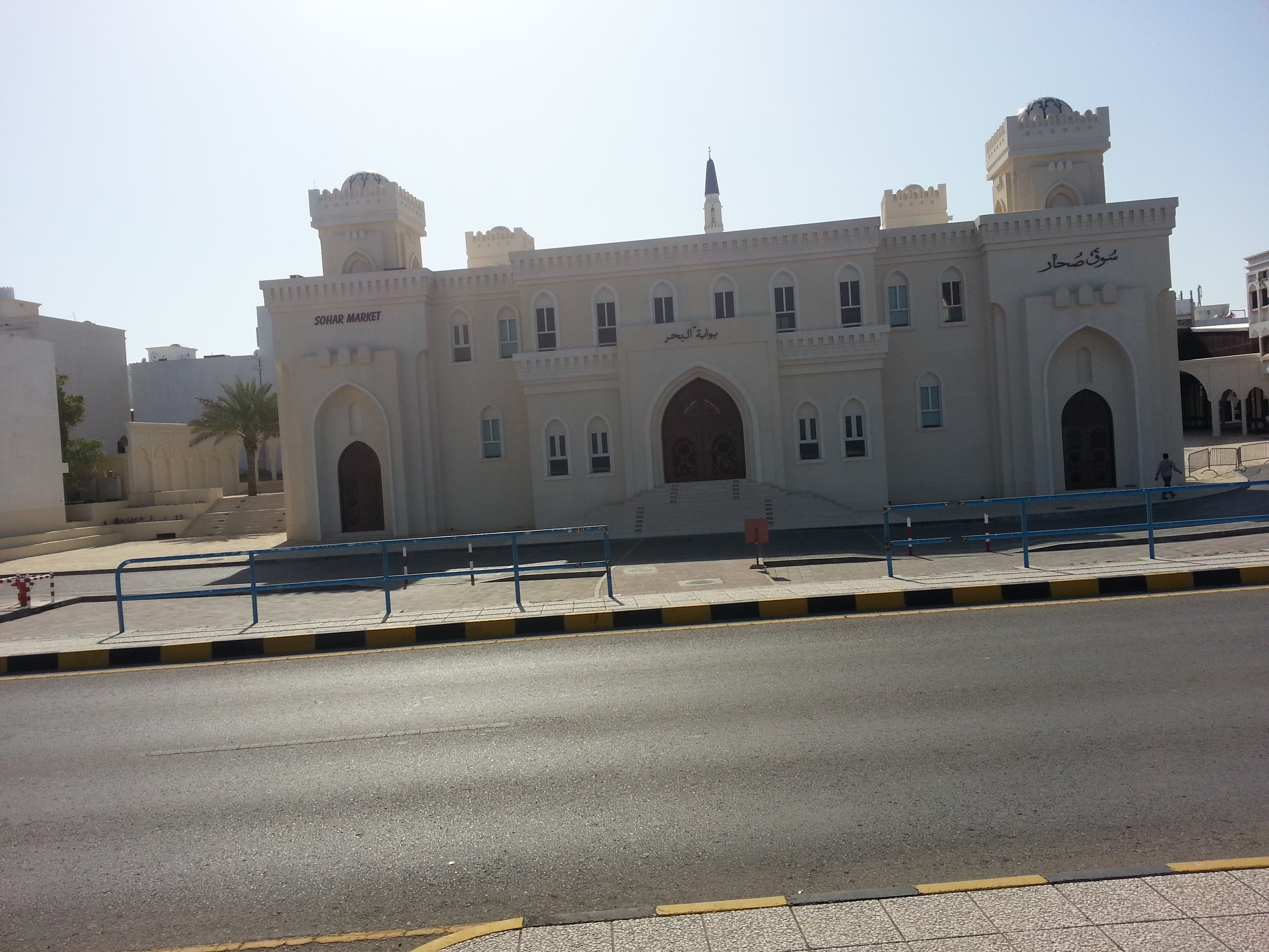 بوابة البحر